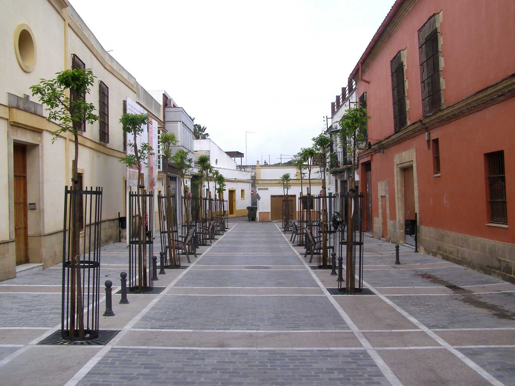 Quemada Square, Jerez